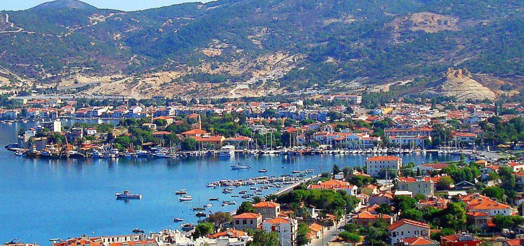 Foça (ancient Phocaea) near İzmir on Turkey's Aegean coast